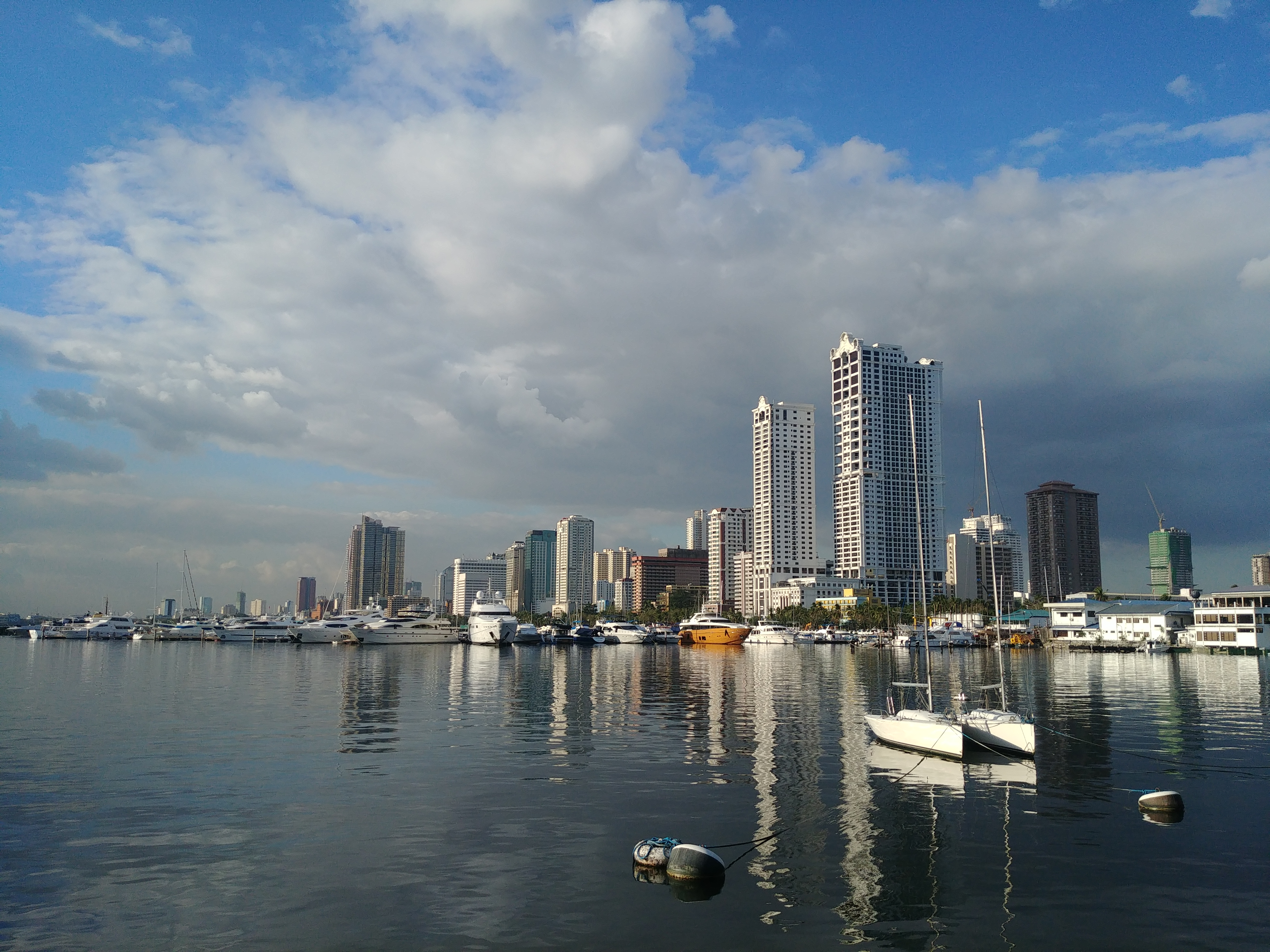 Manila's Skyline as viewed from Harbor Square at the Cultural Center of the Philippines